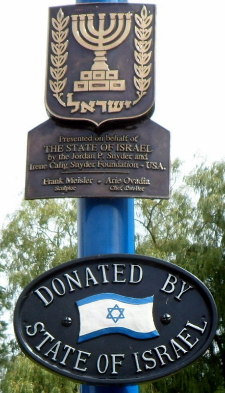 Donated by the State of Israel, Stratford-upon-Avon